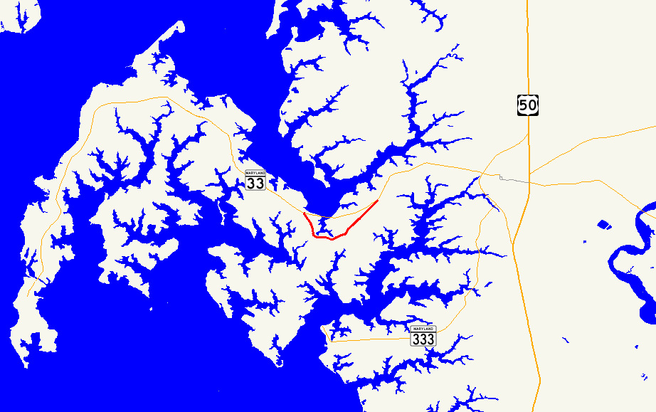 Map of Maryland Route 329